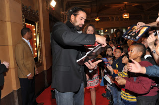 Snagged a pic of Gabe Tuft (AKA Tyler Reks) on the Red Carpet in 2012.